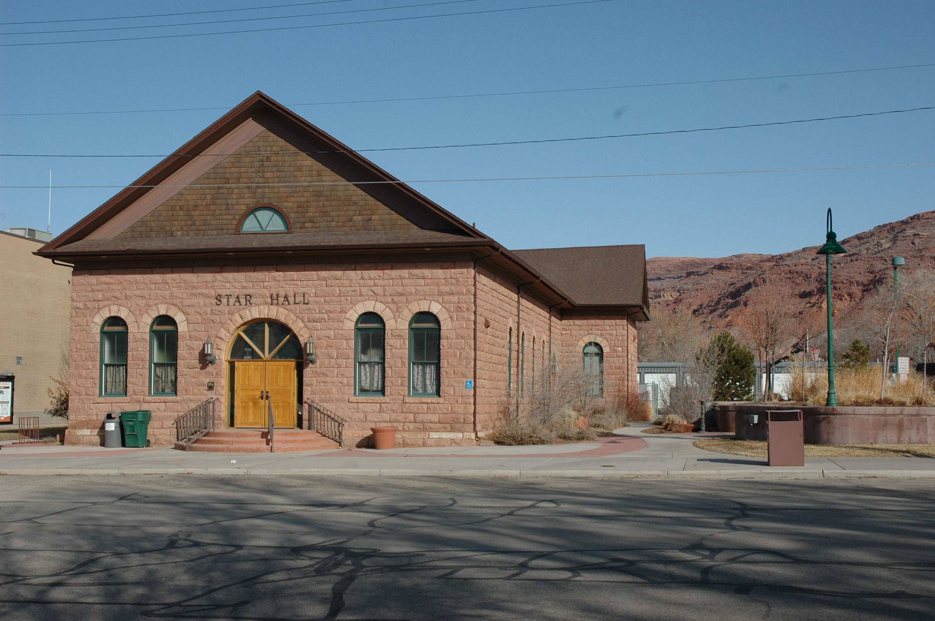 Star Hall, a historic theater in Moab, Utah, United States.